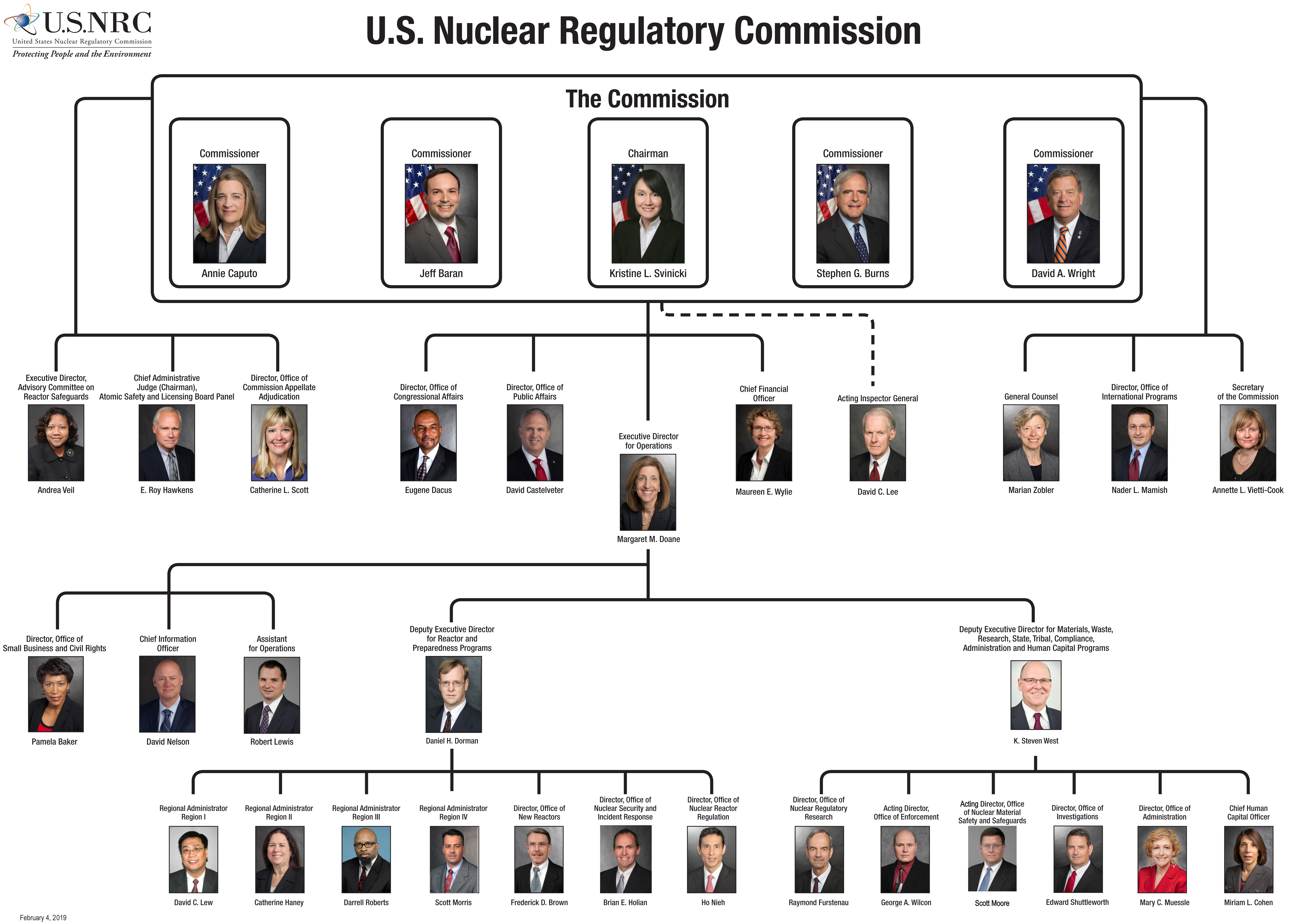 NRC Organizational Chart - February 2019 Visit the Nuclear Regulatory Commission's website at . To comment on this photo go to Photo Usage Guidelines: Privacy Policy: .